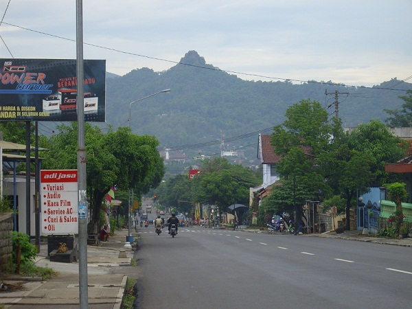 Downtown of Wonogiri Town, the Capital of Wonogiri Regency, taken from the eastside of Wonogiri, with Gandul Hill as background.